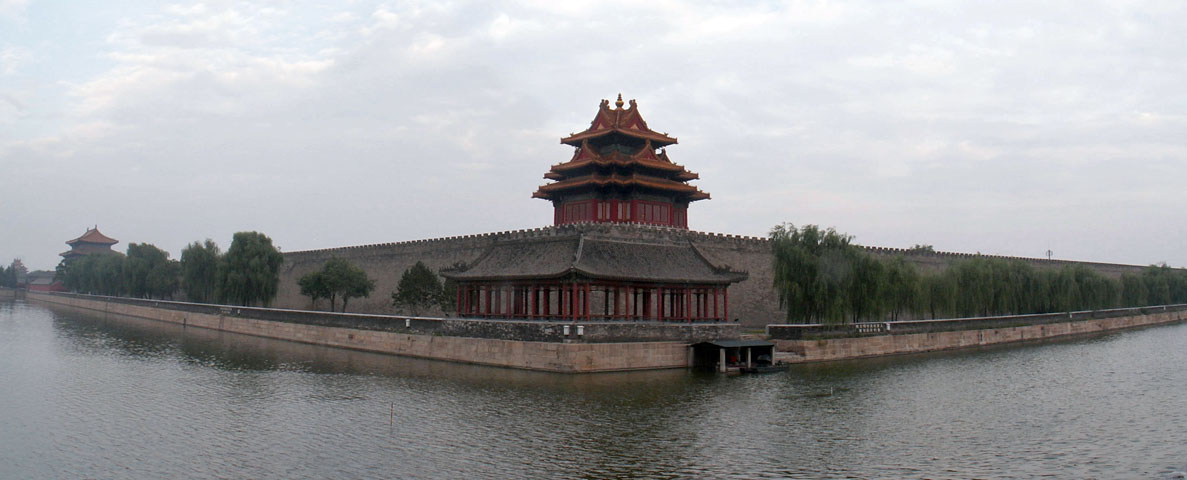 Summer Palace